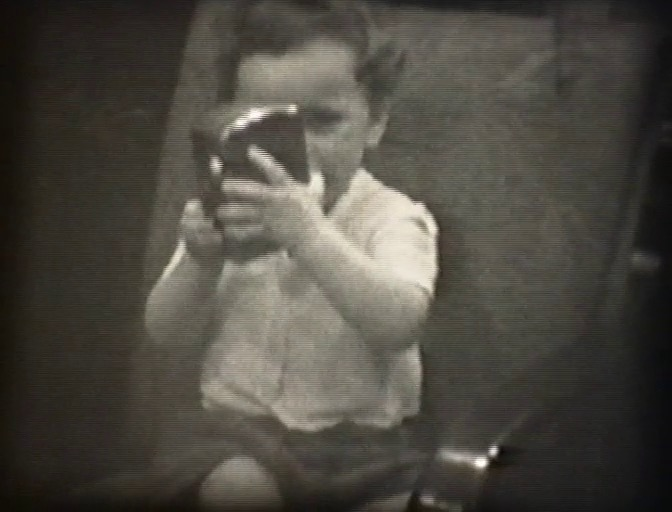 Christian W. Staudinger as a little boy with filmcamera